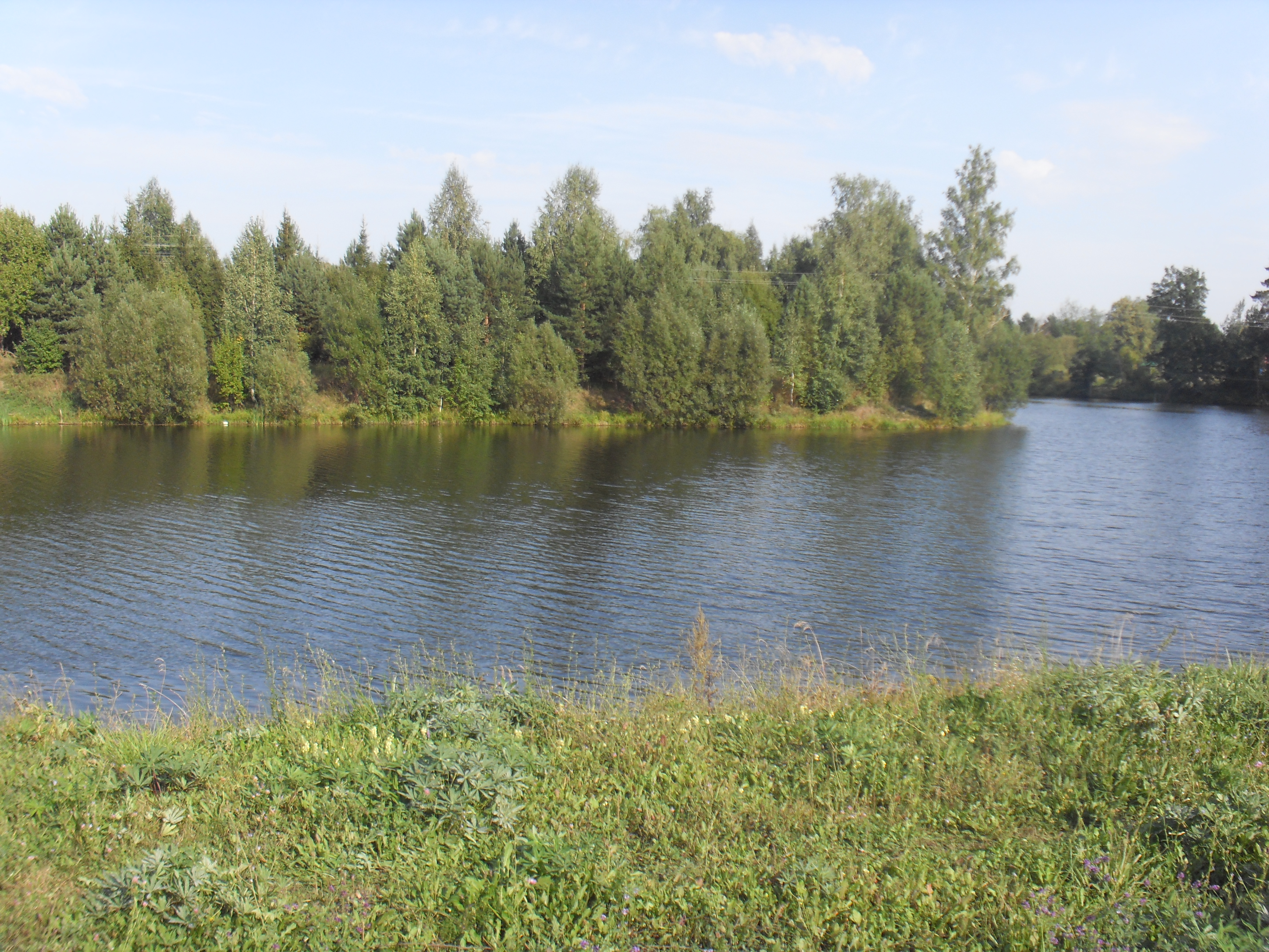 Upa River in the village of Upsha